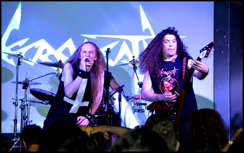 Necrodeath playing live on 2012